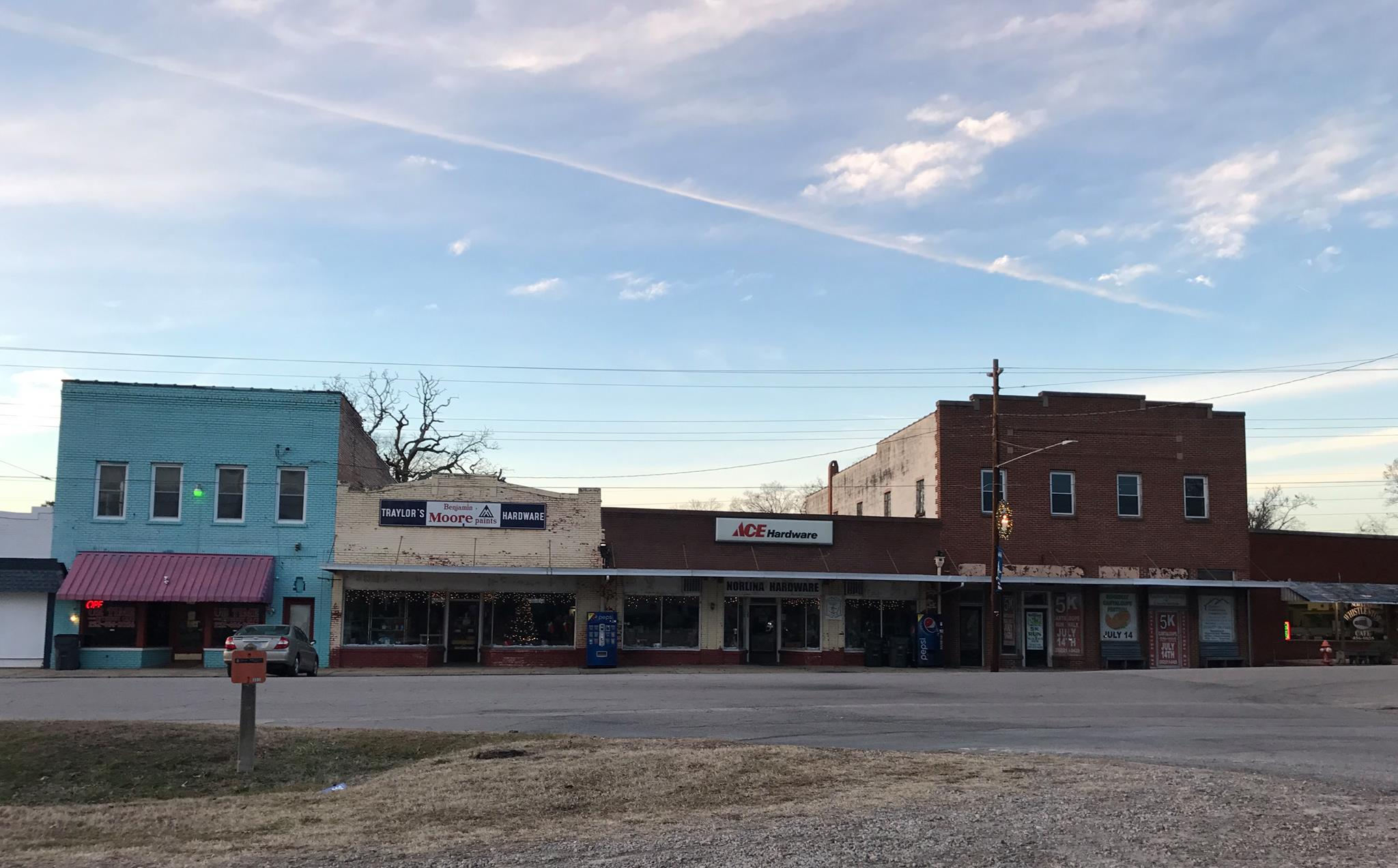 Strip of buildings along Hyco Street in downtown Norlina, North Carolina